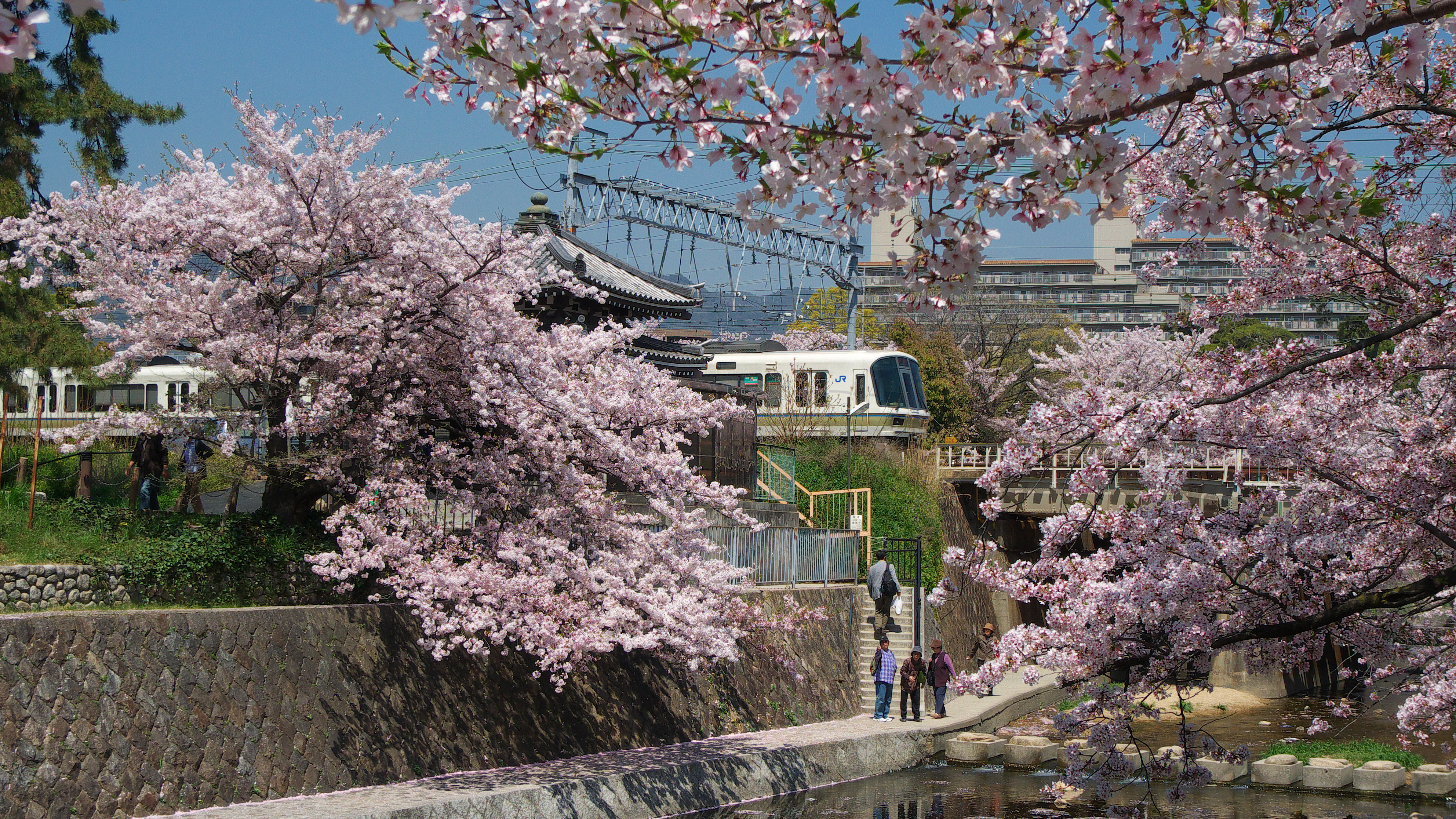 Cherry blossoms in full bloom at Shukugawa Park, Nishinomiya City, Hyogo Prefecture, Japan